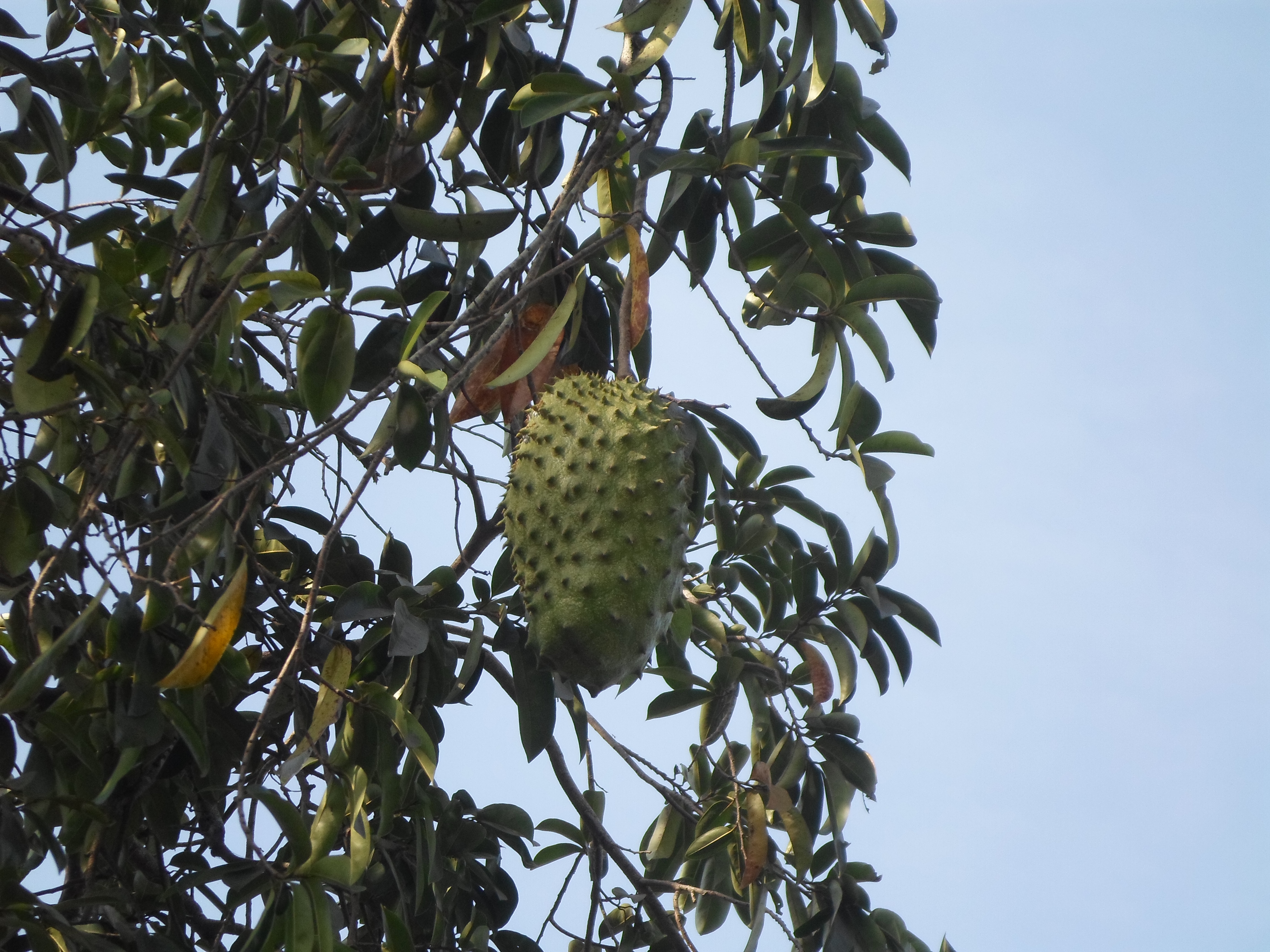 Soursop fruit hanging on a tree, as seen from below.